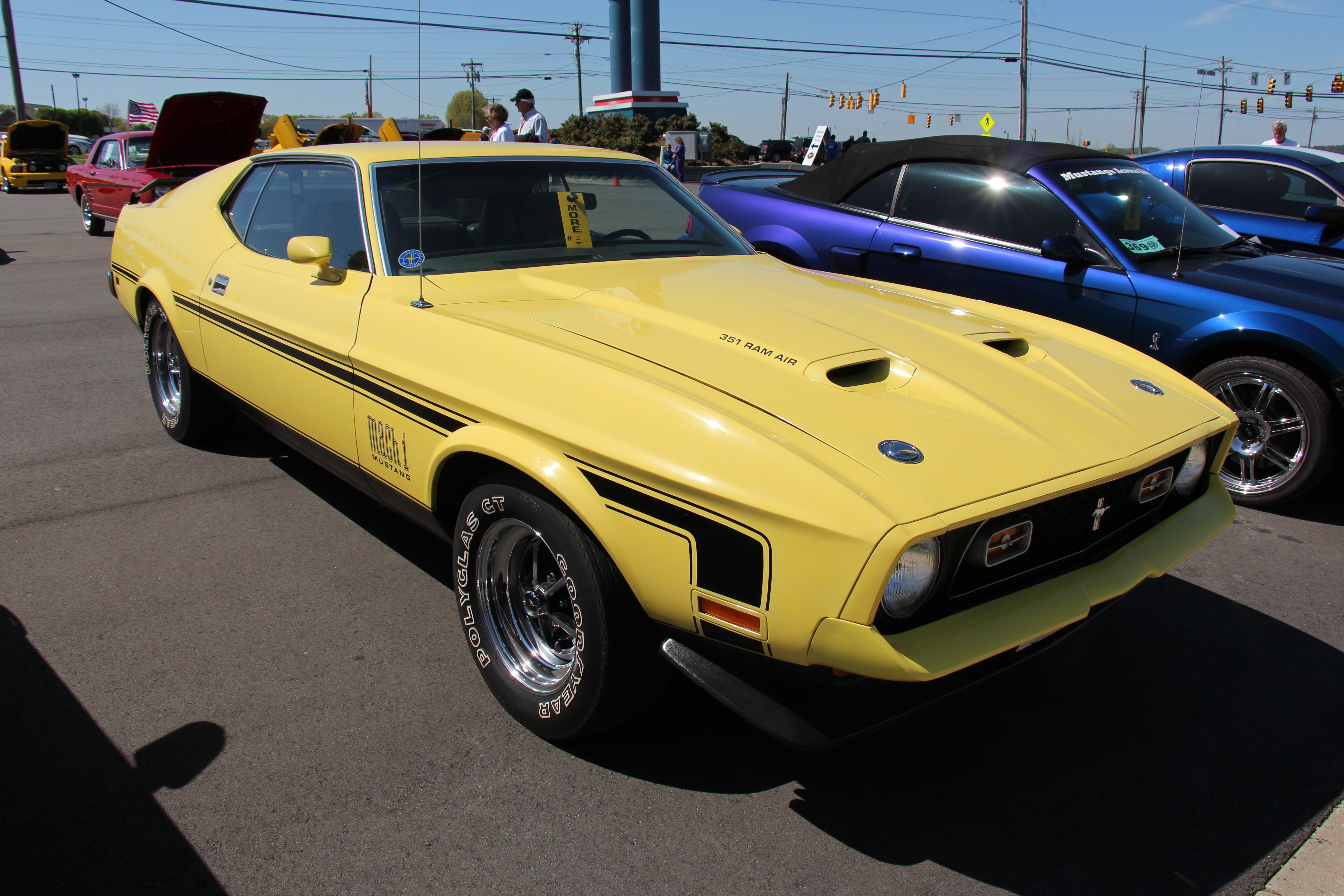 Medium Yellow. The Mustang began to get fat and lazy, bigger and heavier in 1971. The 1971 and 1972 Mustangs were nearly identical. The Mach 1, that was introduced in 1969, was the sporty model, only available in the Sportsroof, the 1971-72 model featured Nasa style scoops on a striped hood, hockey stripes on the side, front and rear spoilers and sports wheels. Engine available 1972: 210hp 302 Windsor, 240hp 2bbl 351 285hp 4 bbl, 351 Photographed at the 50th Anniversary of the Mustang celebrations at the Charlotte Motor Speedway, April 2014